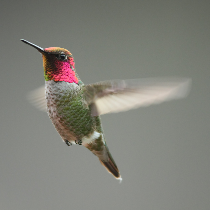 A male Anna's Hummingbird in San Luis Obispo, California, USA.